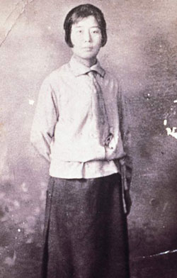 Na Hye-sok in Paris, 1928